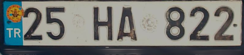 Turkish license plate